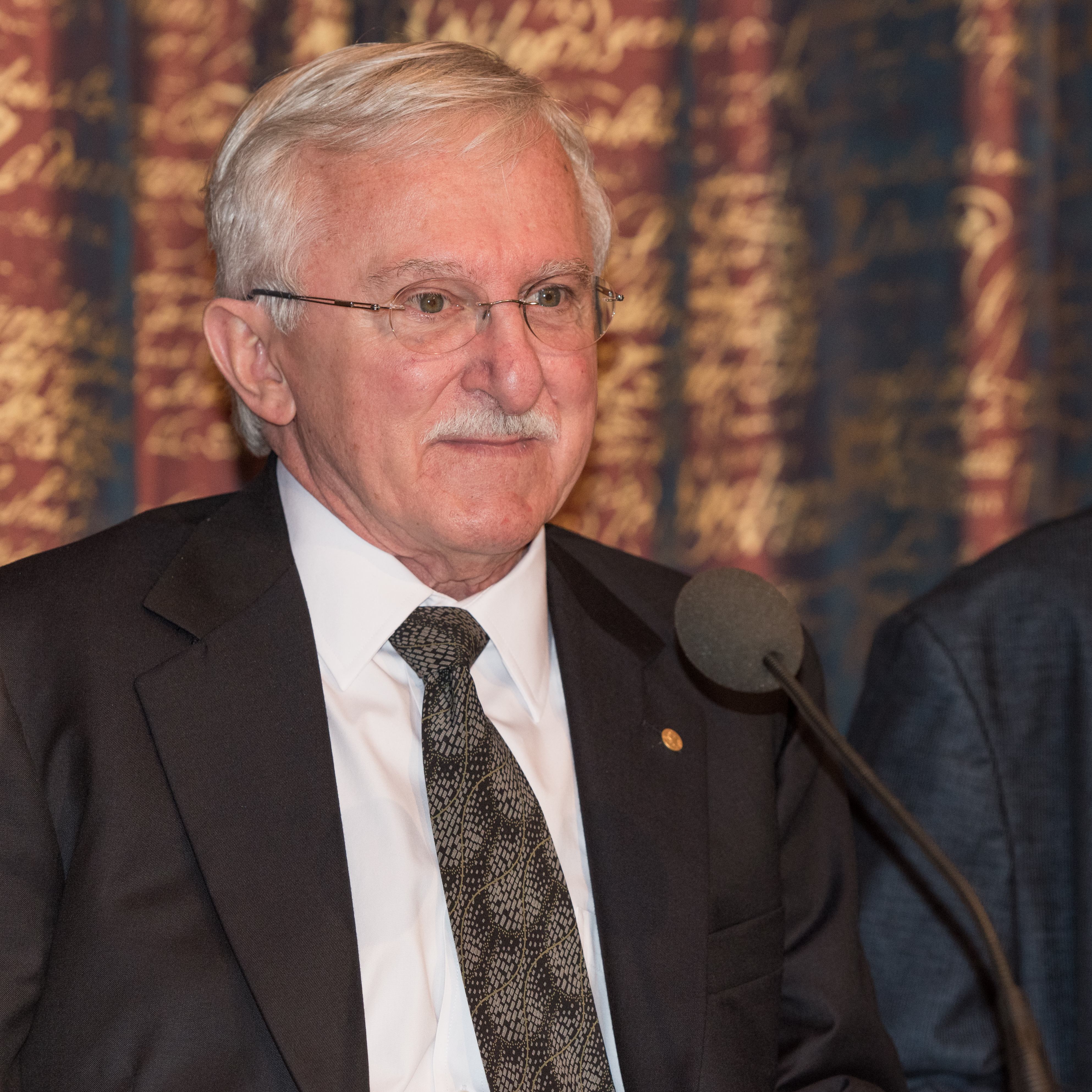 Paul L. Modrich, Nobel Laureate in chemistry during press conference at the Royal Swedish Academy of Sciences in Stockholm December 2015